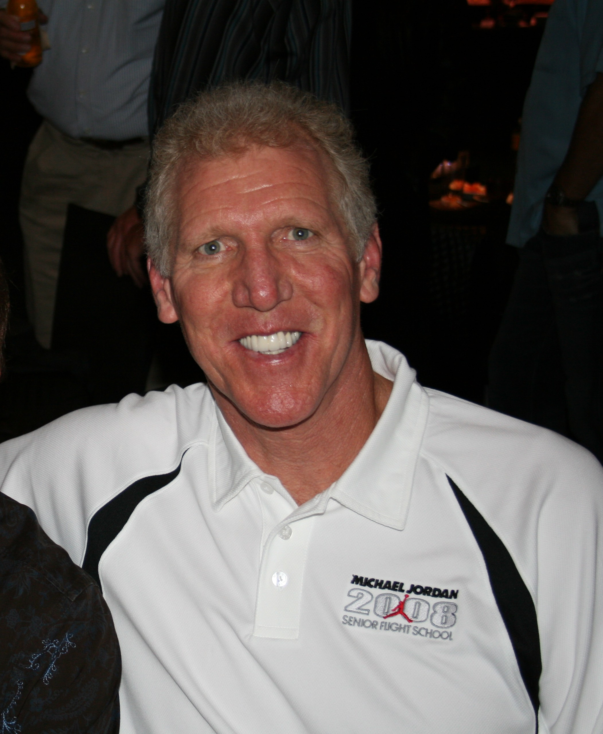 From 2008 fantasy Basketball camp